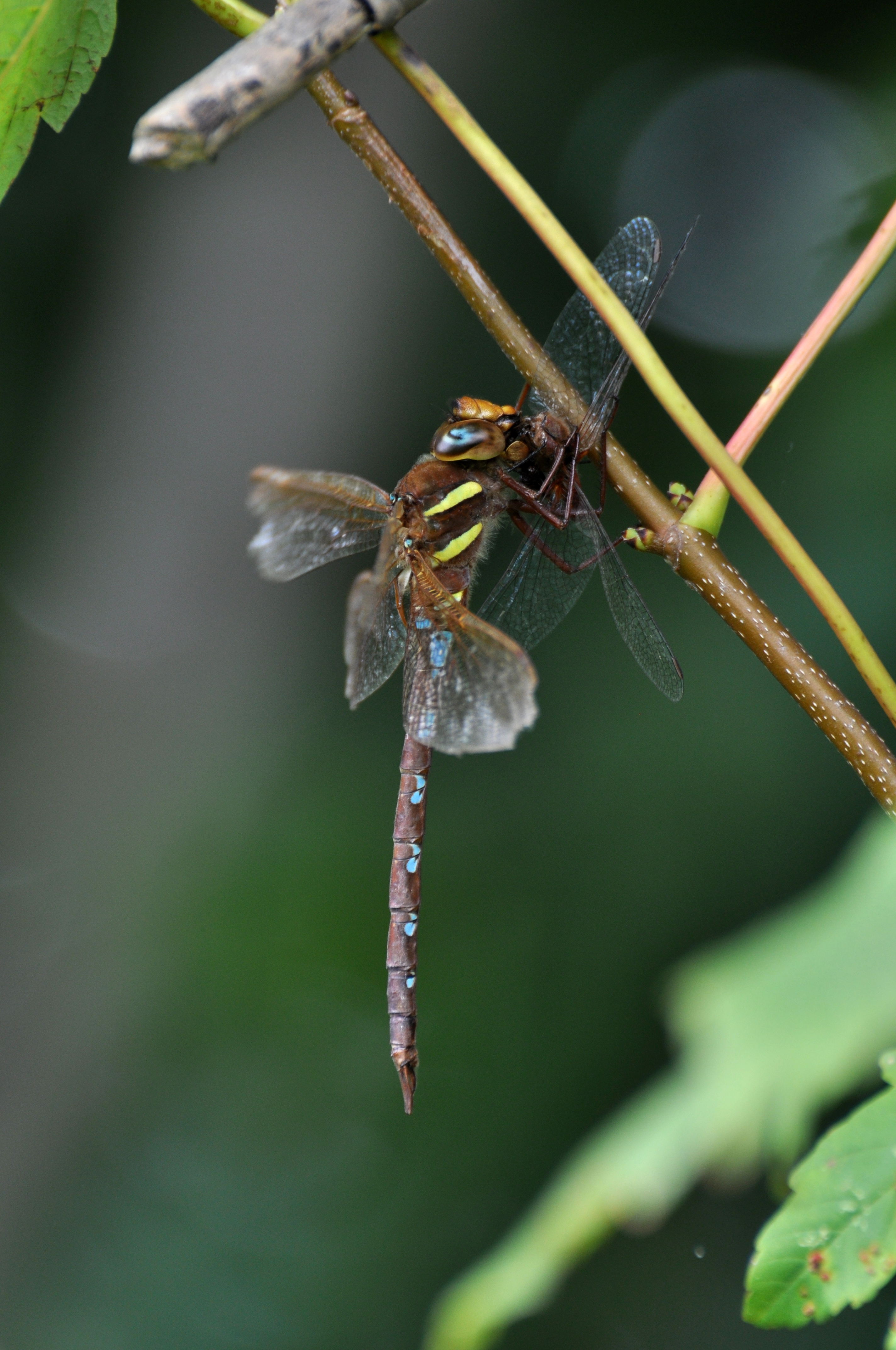 Brown Hawker male devouring a Sympetrum ssp. in Kirchwerder, Hamburg